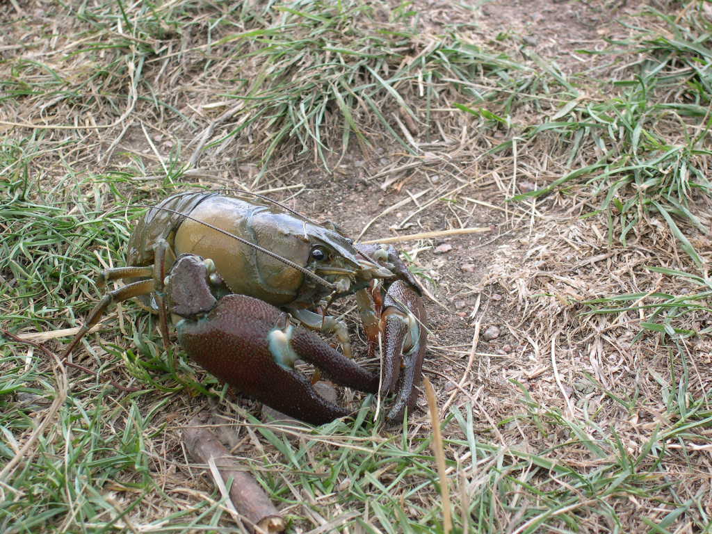 Signal Crayfish Pacifastacus leniusculus ("American Crayfish") caught in Grand Union Canal, England, near its infill from the River Nene